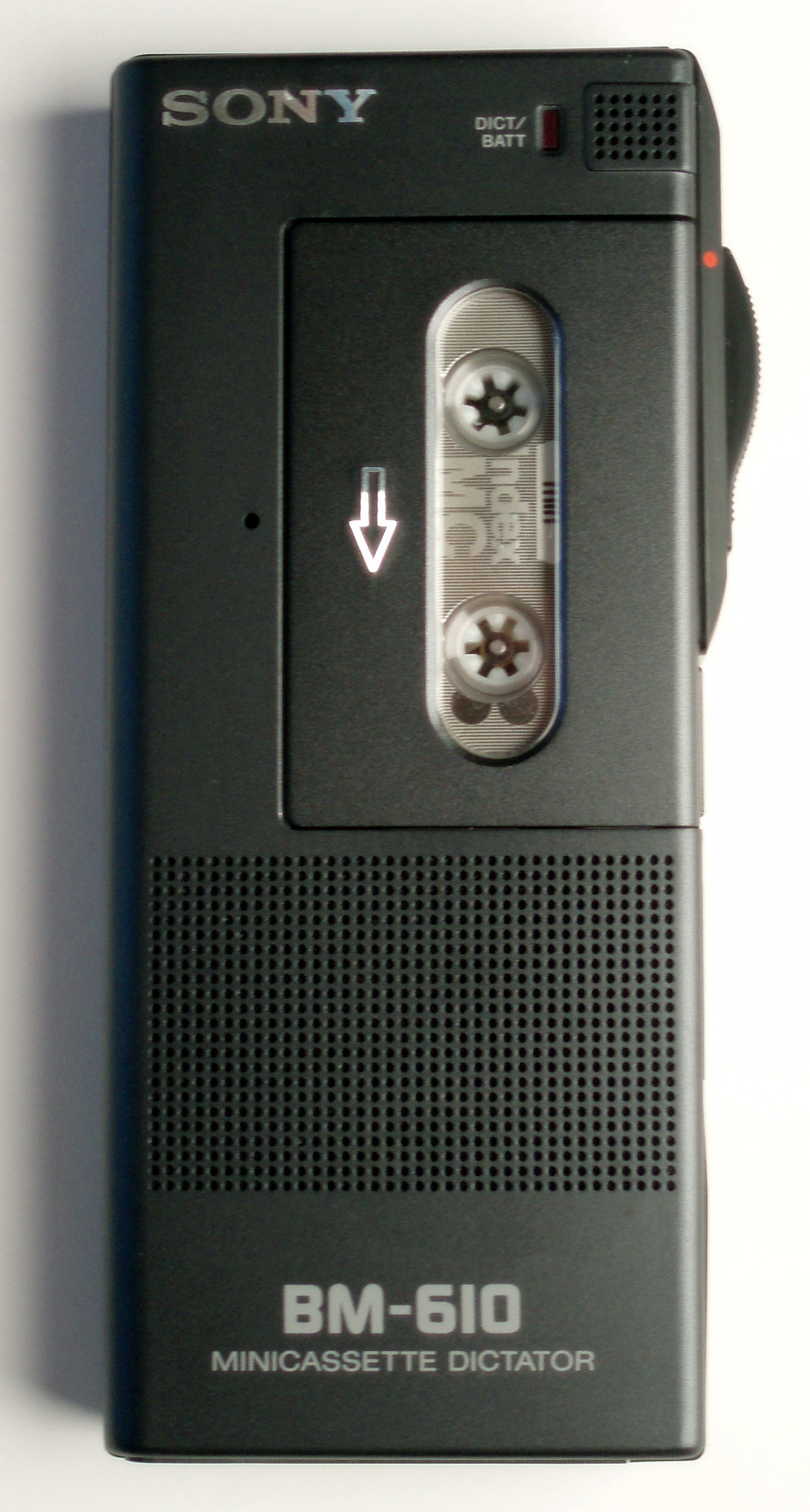 SONY BM-610 dictaphone